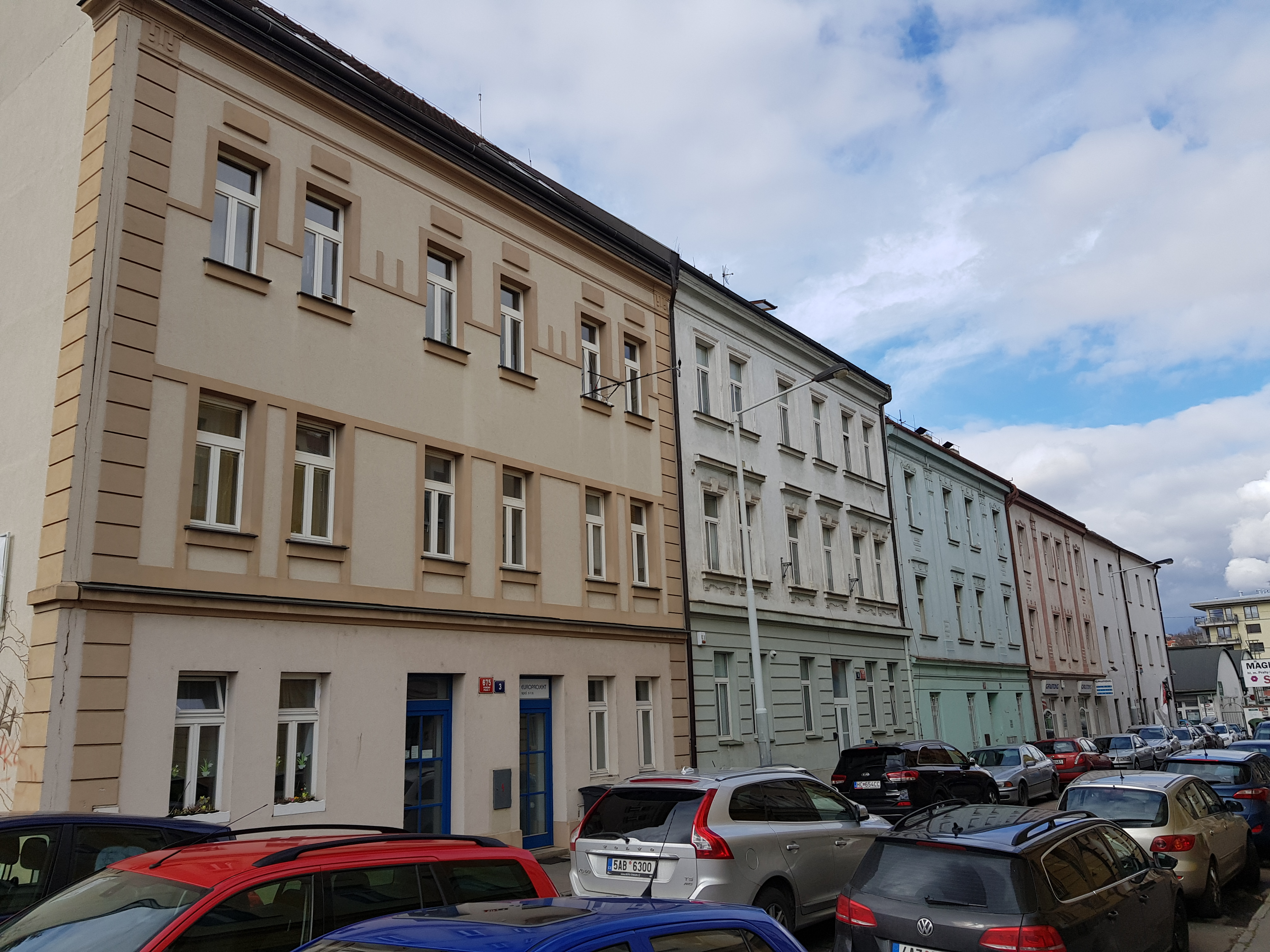 Western side of the Kolmá Street in Prague-Vysočany